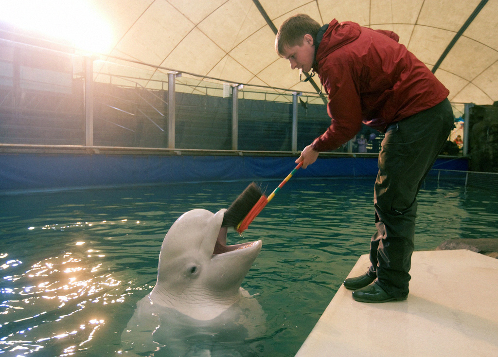 “White whales performing at the Moscow Zoo dolphinarium”. White [Beluha] whales performing at the Moscow Zoo dolphinarium.